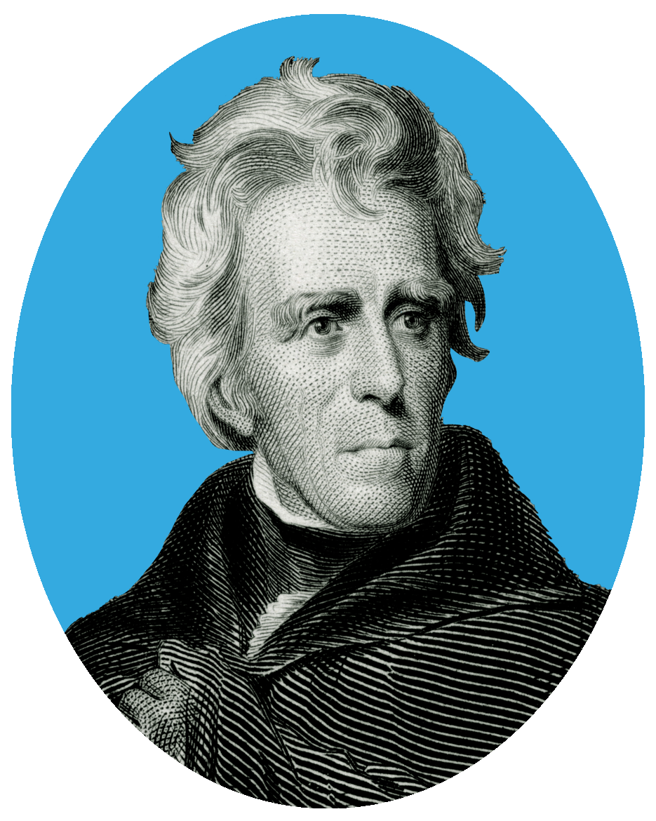 Oval portrait in official DNC blue of Lt. General Andrew Jackson of Tennessee, nominee of the Democratic Party in 1832